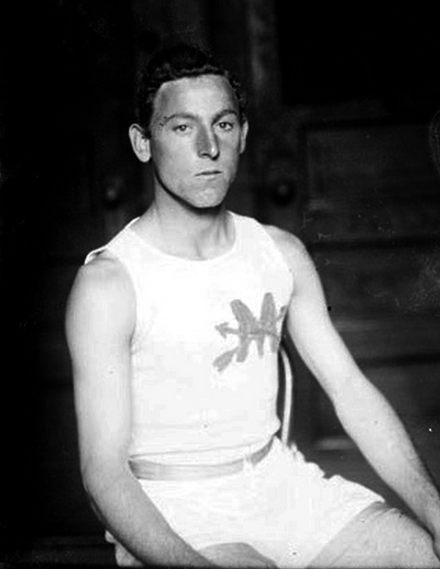 The source strongly implied this is Frederick Lorz at the 1904 Olympics. In good faith I am assuming that to be true and archiving it here for the future.